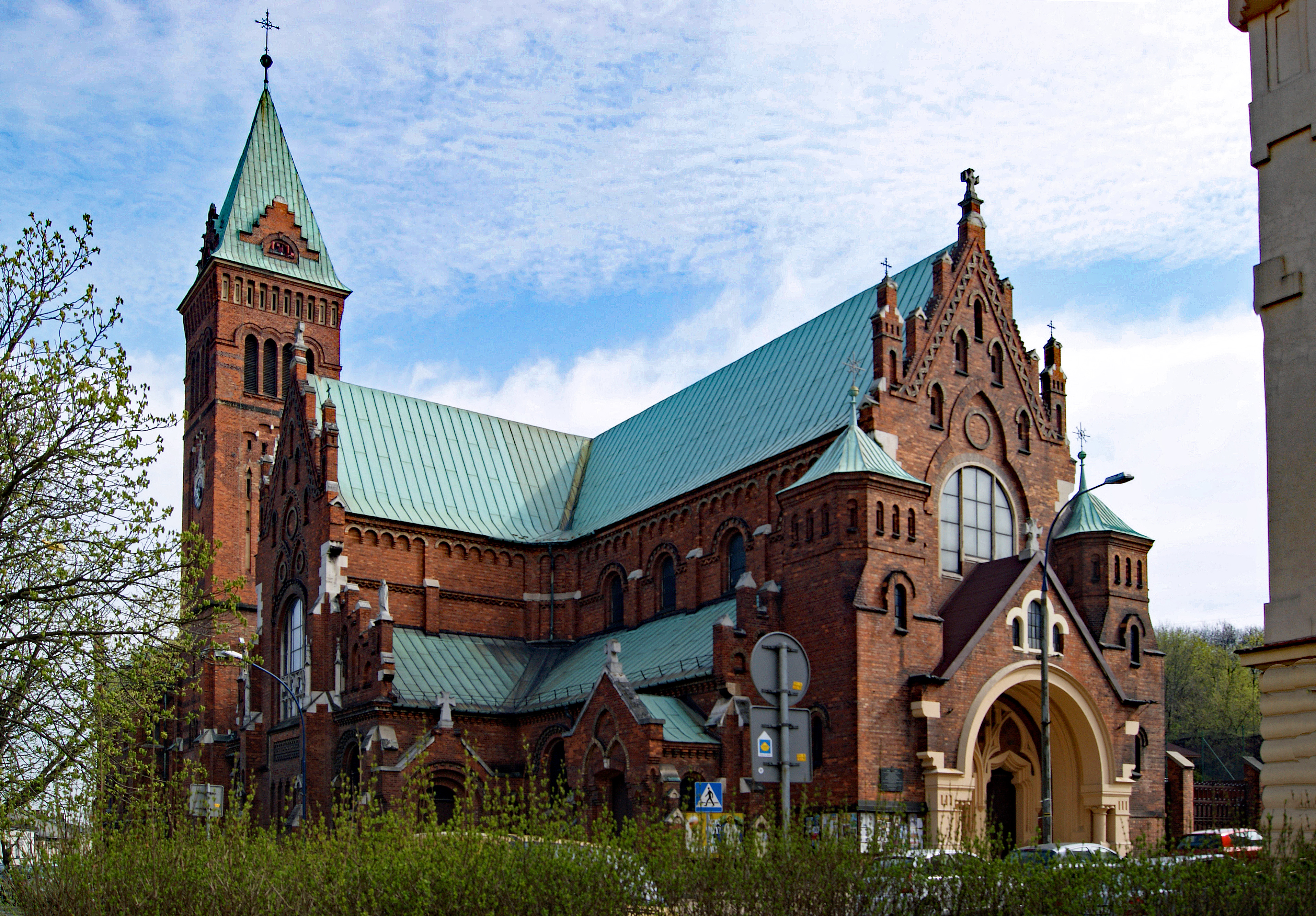 Our Lady of Perpetual Help Church, 56 Zamoyskiego street, Podgorze, Krakow, Poland